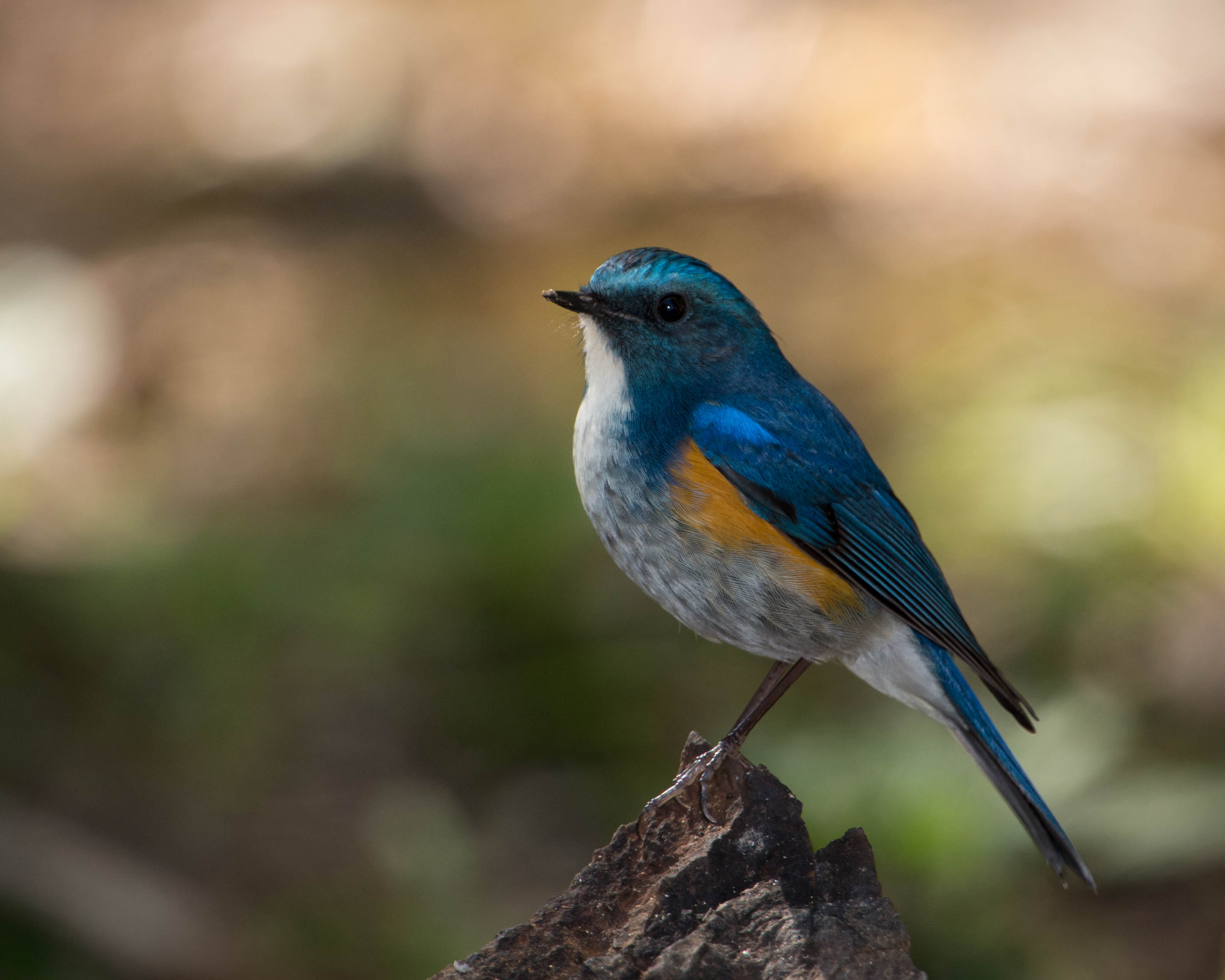 Himalayan Bluetail (Tarsiger rufilatus) at Mai Fang, Doi Lang, Chiang Mai Thailand